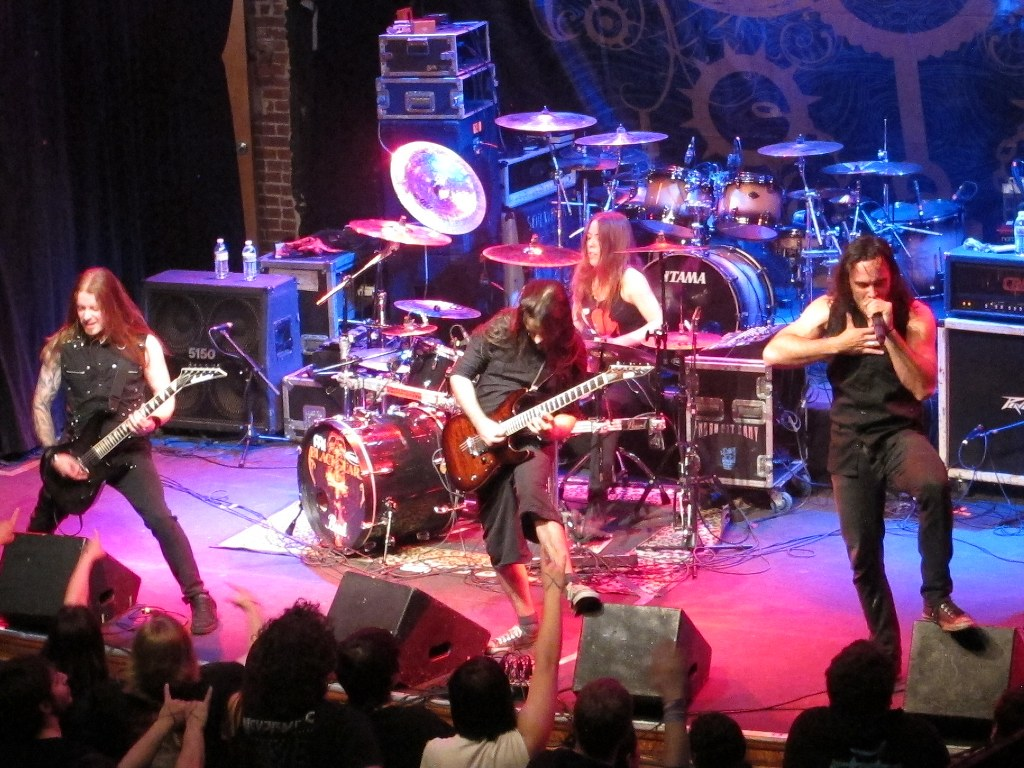 Blackguard live in Denver, CO in 2013.